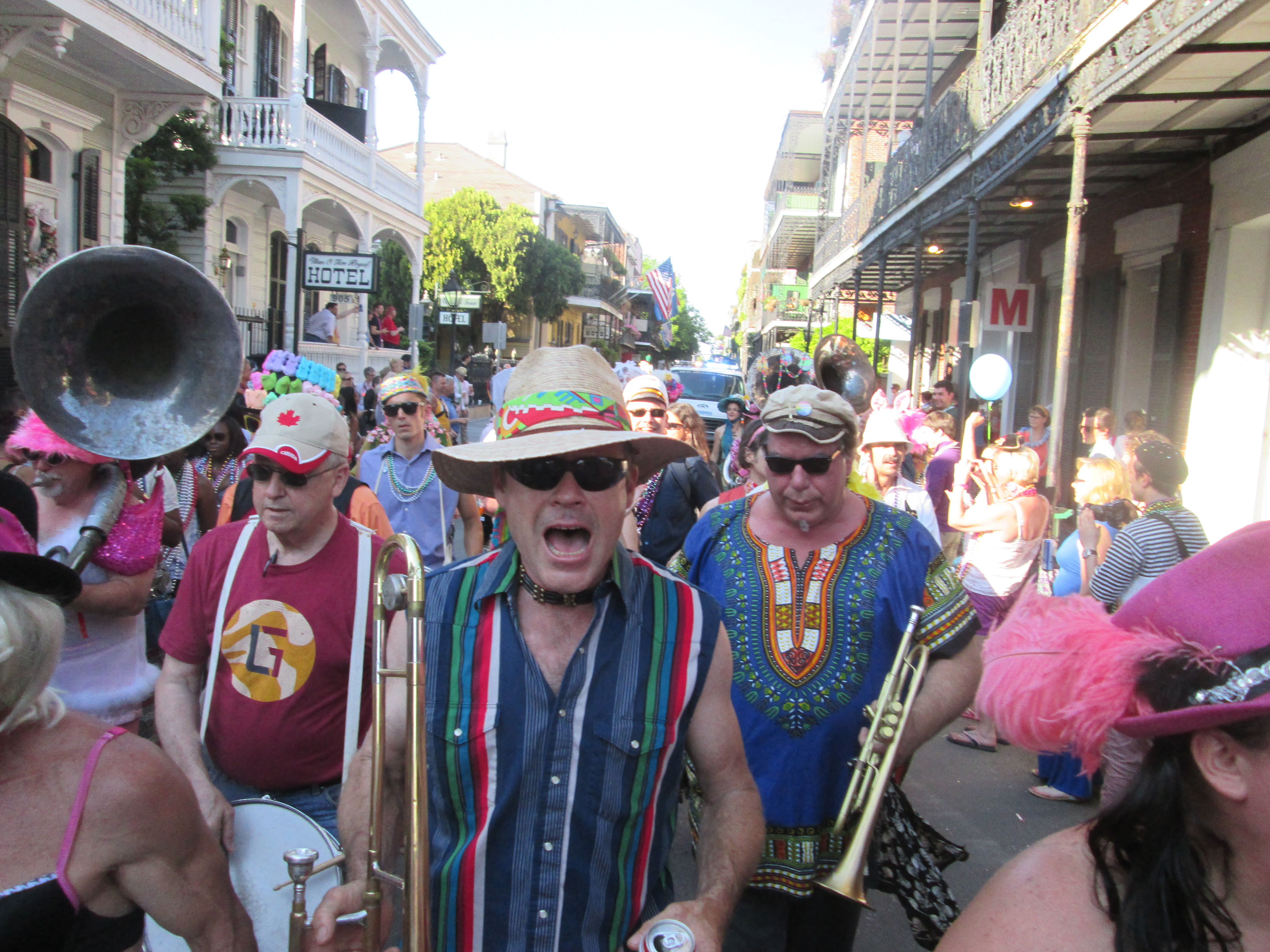 New Orleans. The Pair-A-Dice Tumblers Brass Band plays for the Gay Easter Parade.